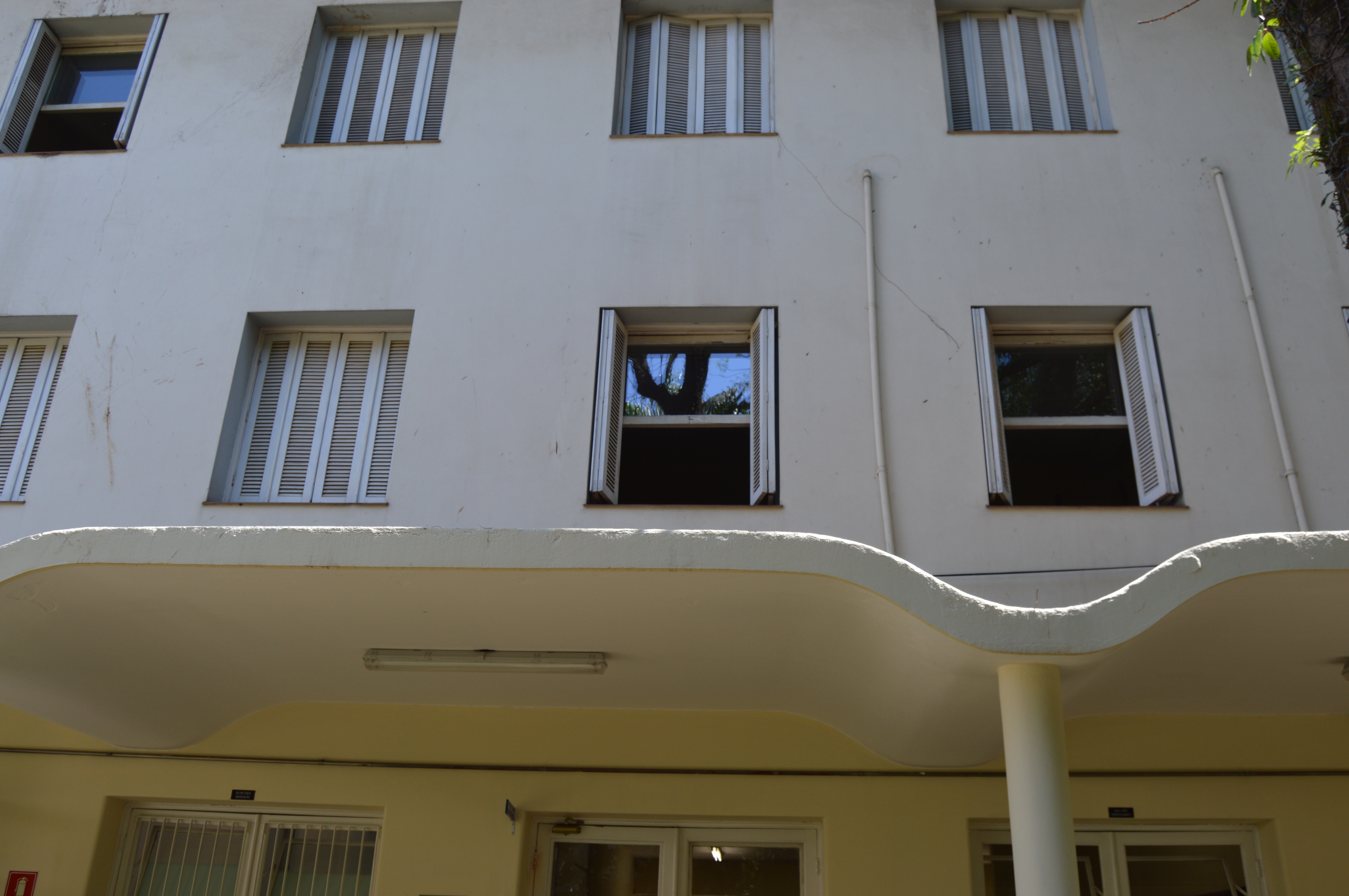 One of the buildings of the Sedes Sapientiae's front to the yard.